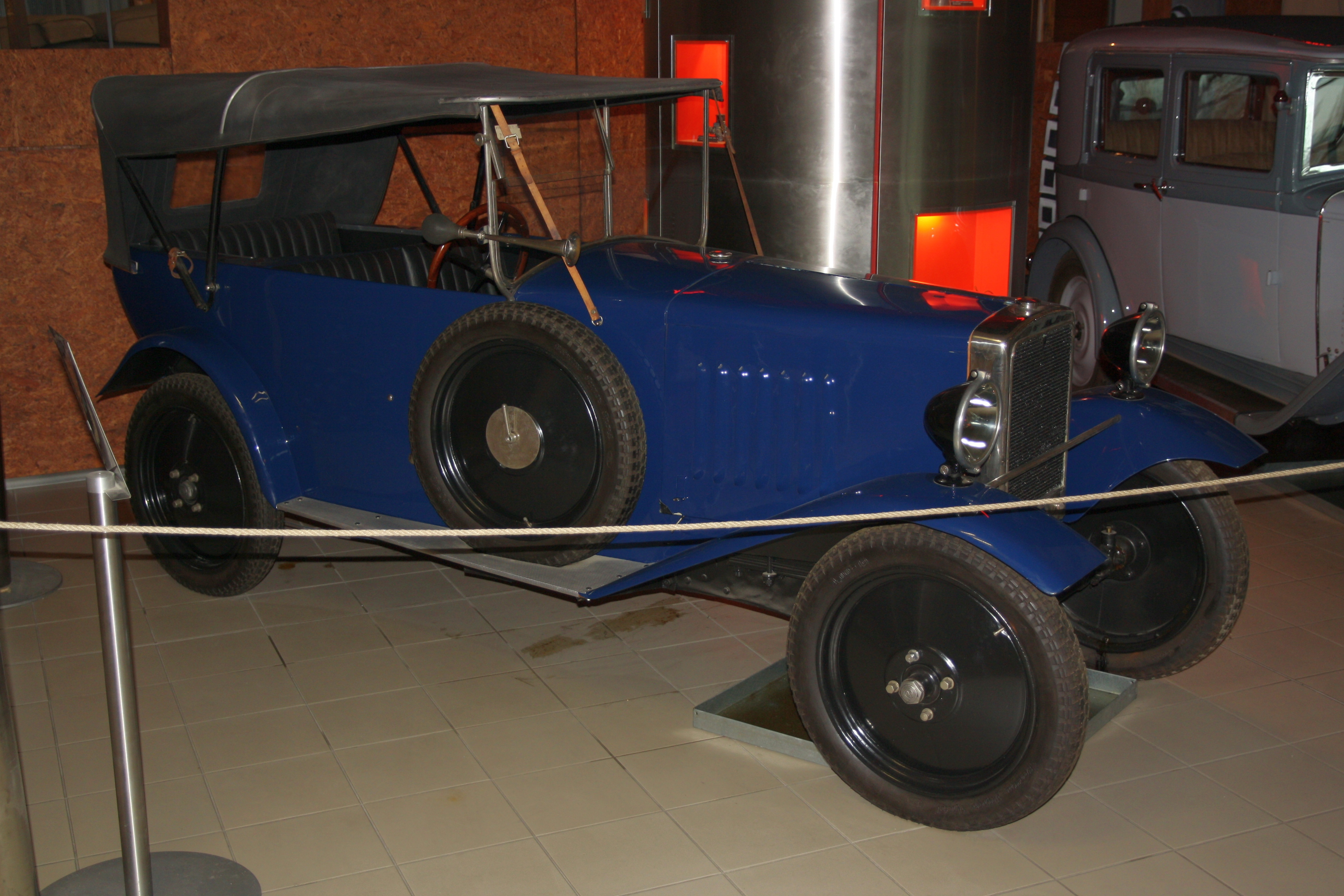 Zbrojovka Disk from 1925 in Technical museum Brno.